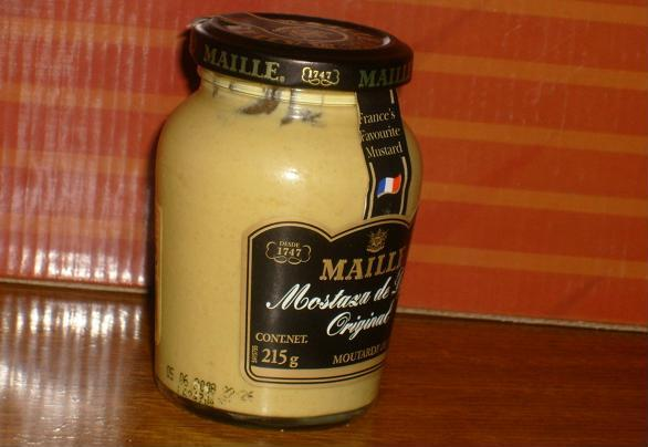 Mustard condiment. A french recipe containing Mustard seeds, and vinegar.